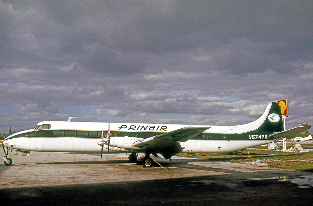 De Havilland Prinair Heron 2 of Prinair at Opa Locka Airport Miami in 1973